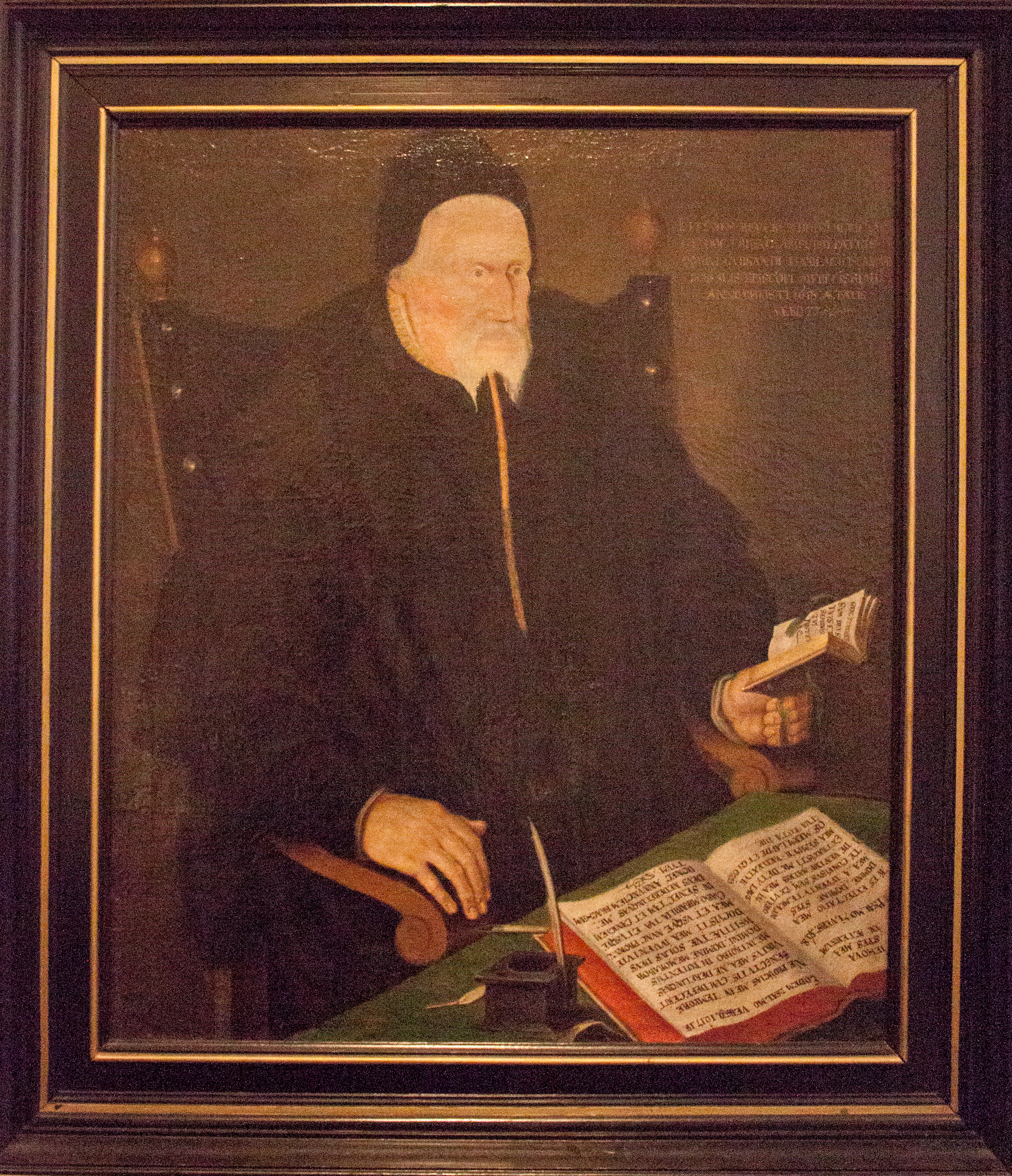 He was a pioneer of book publishing in Iceland